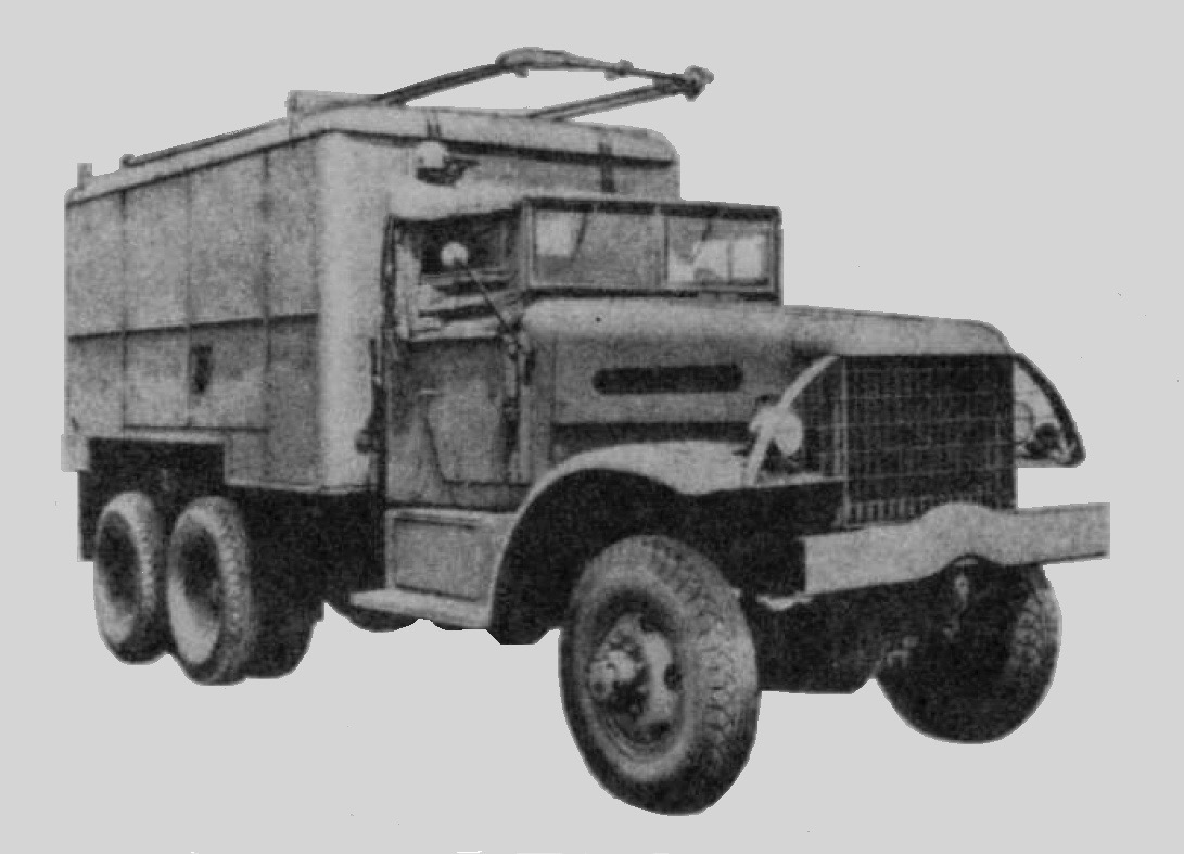 6-ton Prime Mover (and power van) Truck